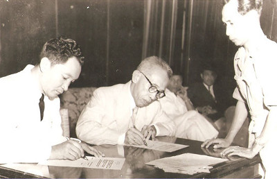 Sudiro and B.W. Lapian signing documents during the transfer ceremony of the office of Governor of Sulawesi from Lapian (as acting governor) to Sudiro (as governor) in July 1951